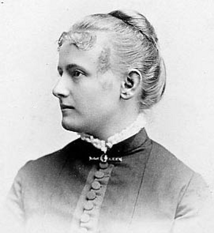 Vida Dutton Scudder (December 15, 1861 - October 9, 1954) was an educator, writer, and welfare activist in the social gospel movement.